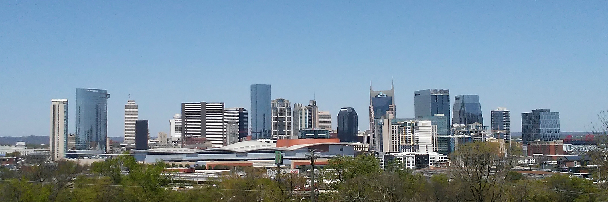 Nashville skyline from Fort Negley on April 20, 2018